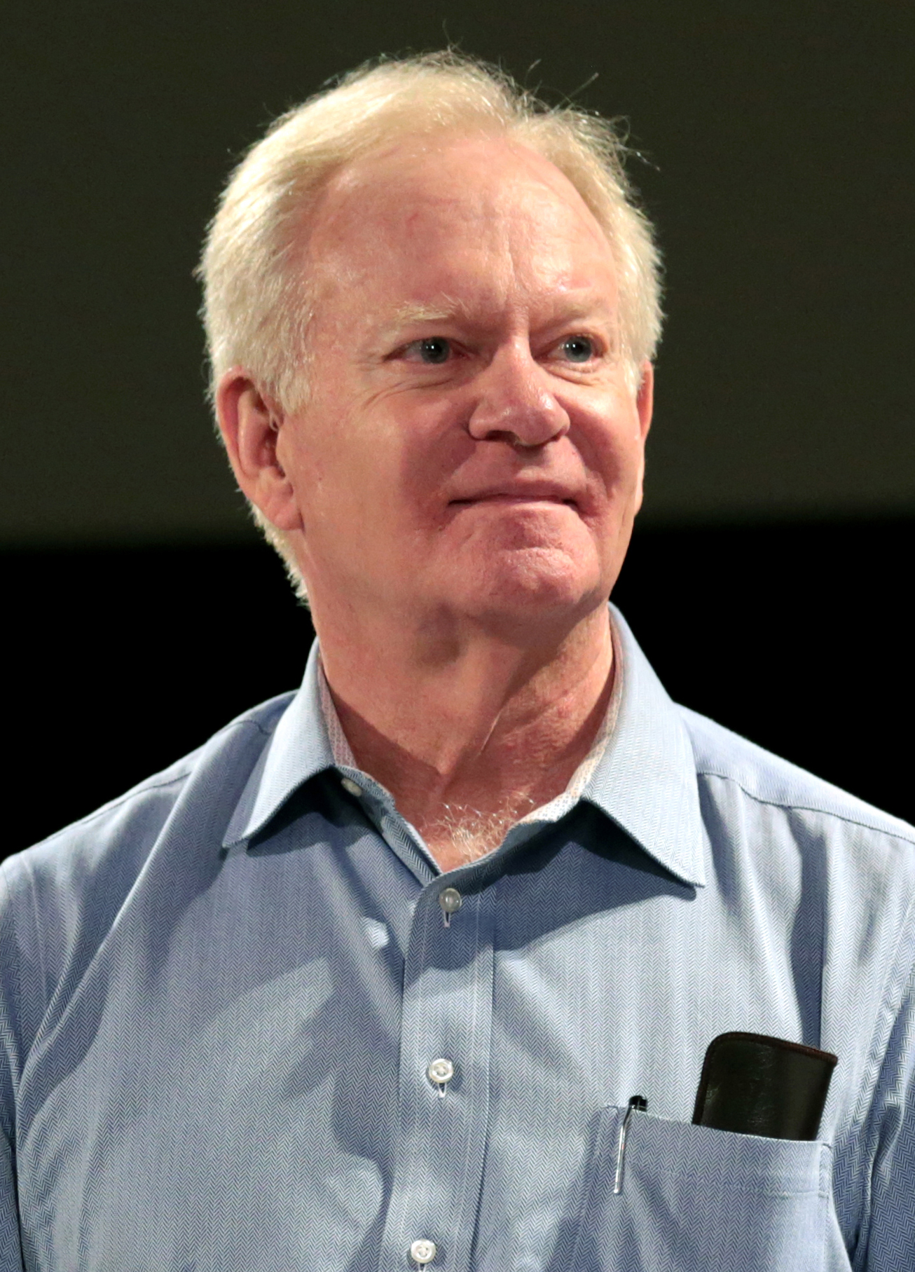 Former Governor Fife Symington speaking at an event in Scottsdale, Arizona.